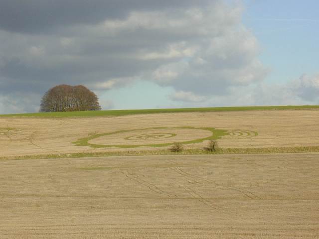 Crop circle near West Kennett